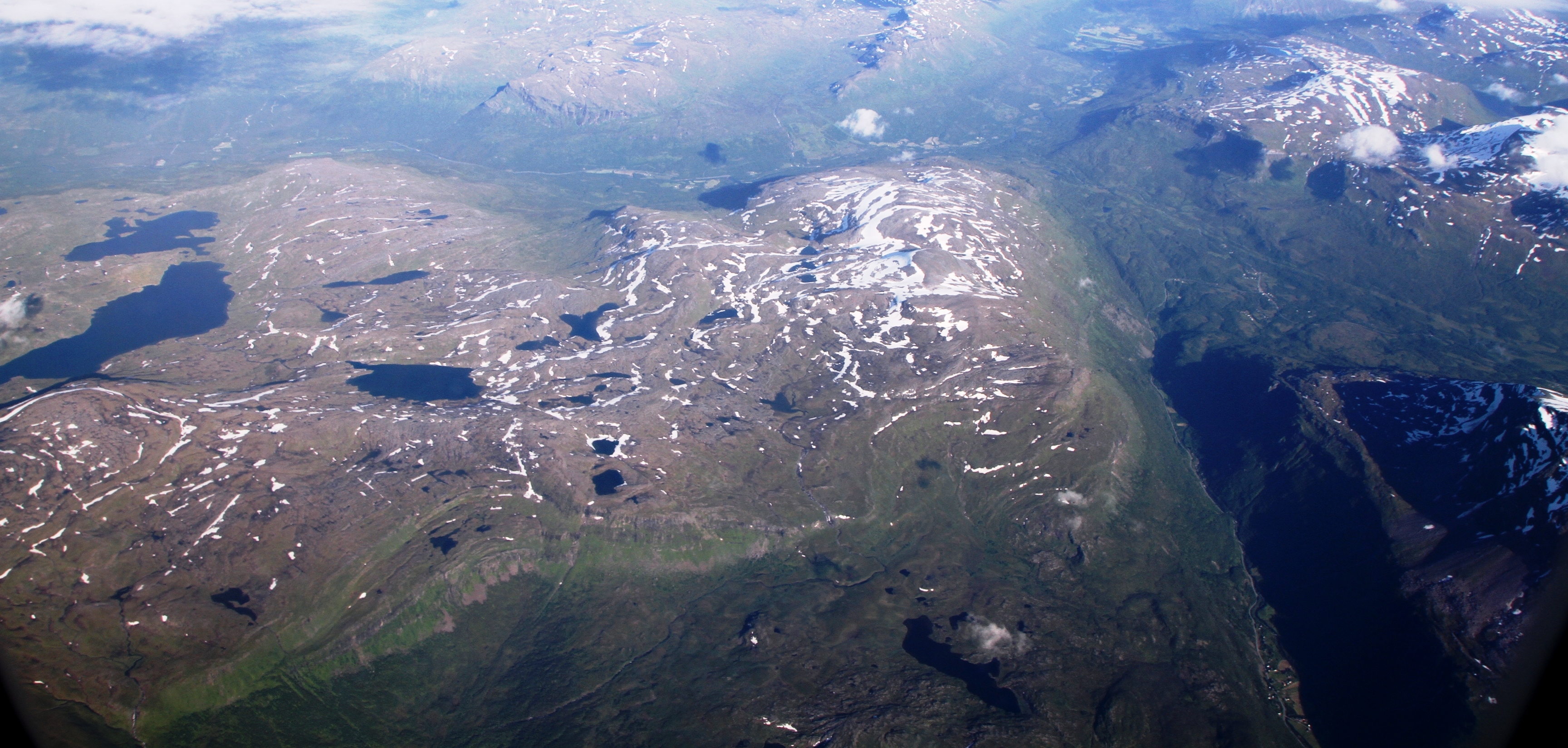 Aerial view from the west towards east, over Salangen municipality towards Bardu municipality, central Troms county - North Norway.